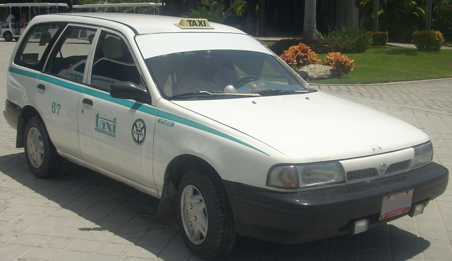 Nissan Tsubame photographed in Cancun, Quintana Roo, Mexico